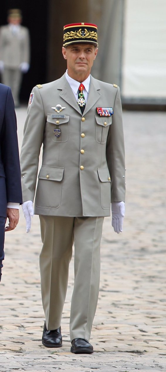 President Trump, President Macron, First Ladies Melania Trump and Brigitte Macron at Les Invalides this afternoon #POTUSinFrance 🇫🇷🇺🇸